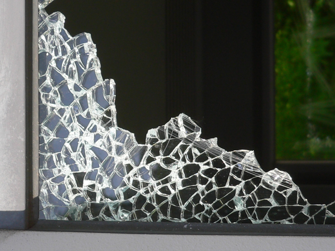 Broken safety glass of vandalised telephone box